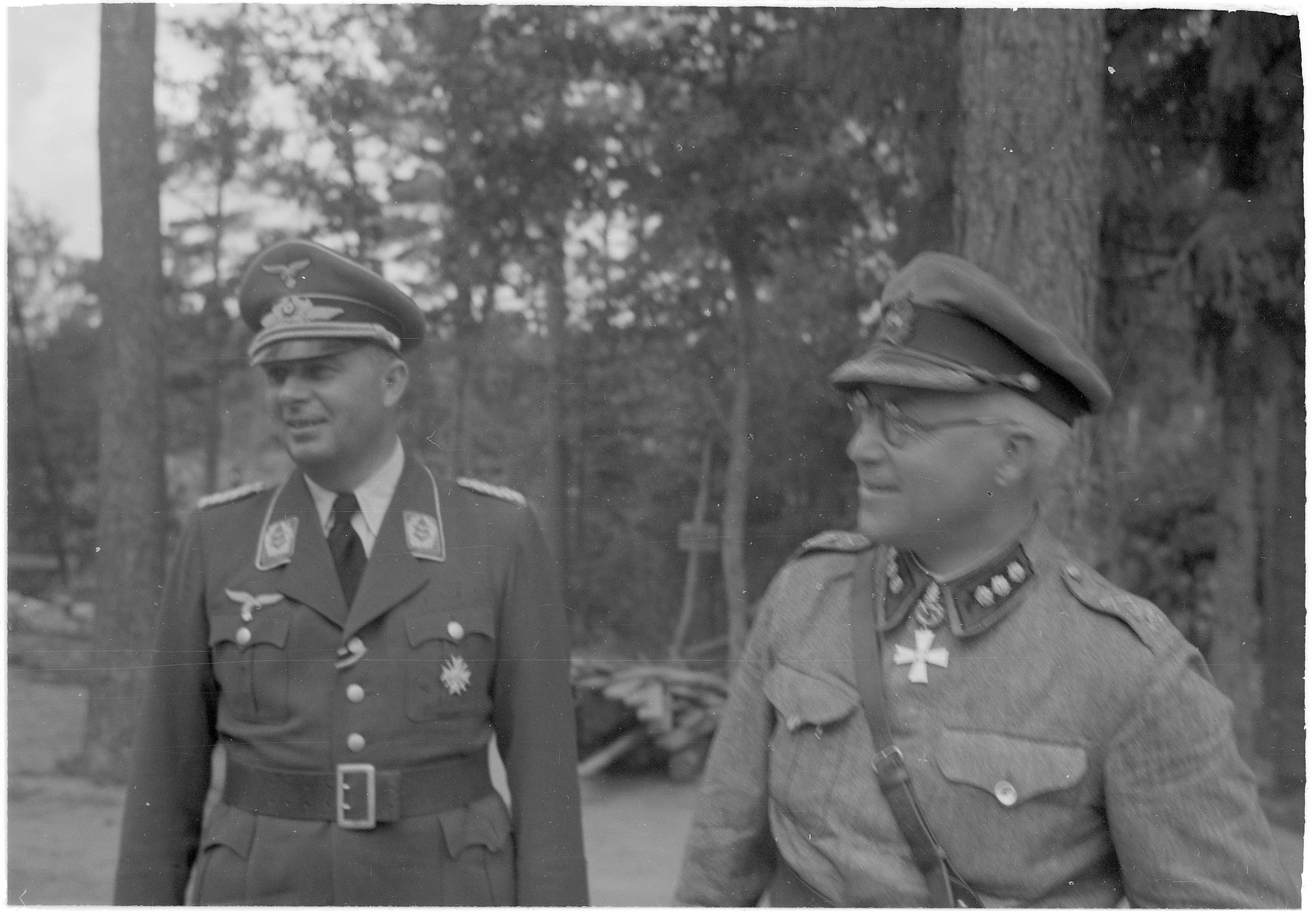 Colonel Eino Järvinen and Lieutenant-colonel Friedrich Siebel. Lahdenpohja 1942.07.03